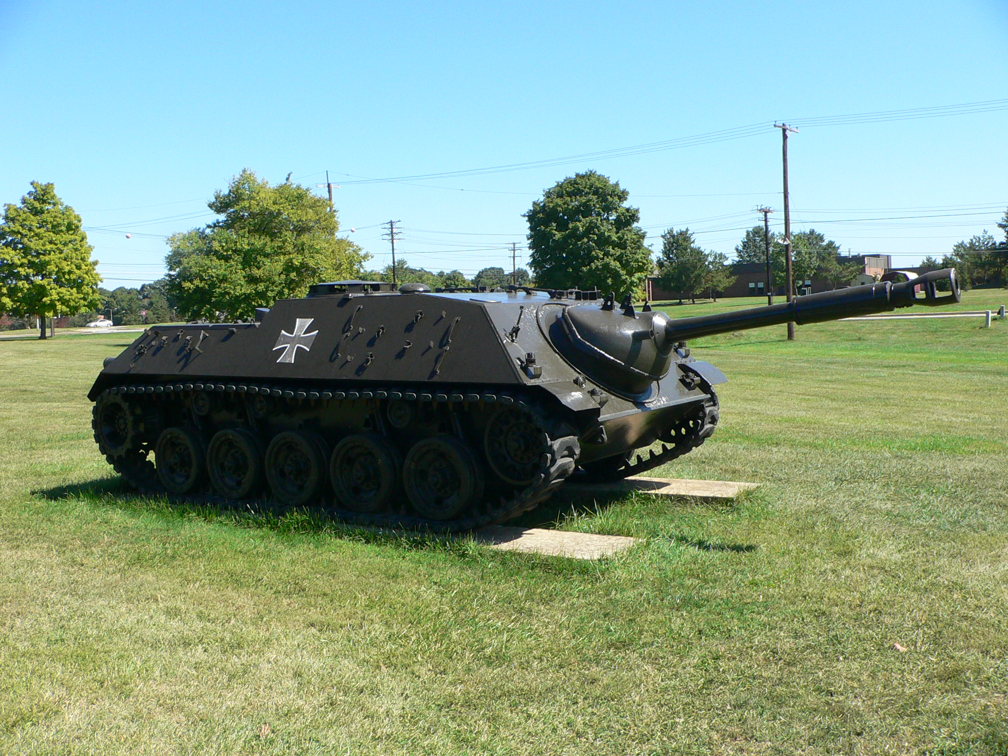 Picture taken by myself, Mark Pellegrini, at the United States Army Ordnance Museum (Aberdeen Proving Ground, MD)